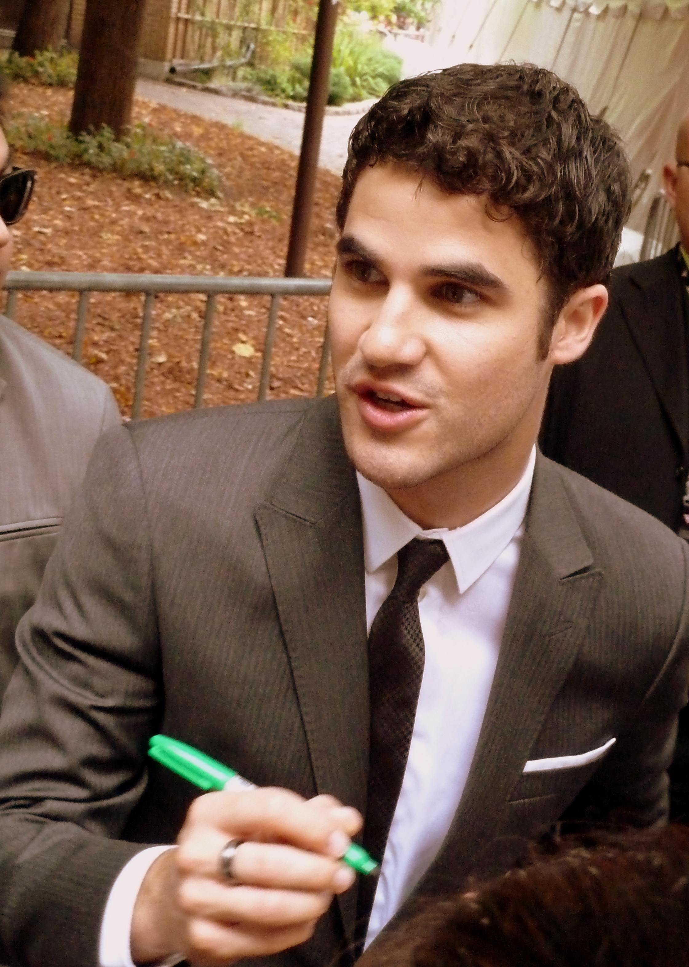 Darren Criss at the premiere of Girl Most Likely, Toronto Film Festival 2012 The name of the movie changed from Imogene to Girl Most Likely